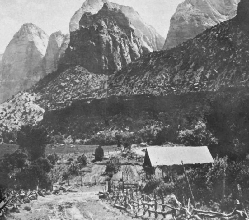 Crawford Ranch in Zion Canyon, now gray-scale, noise reduced and improved contrast